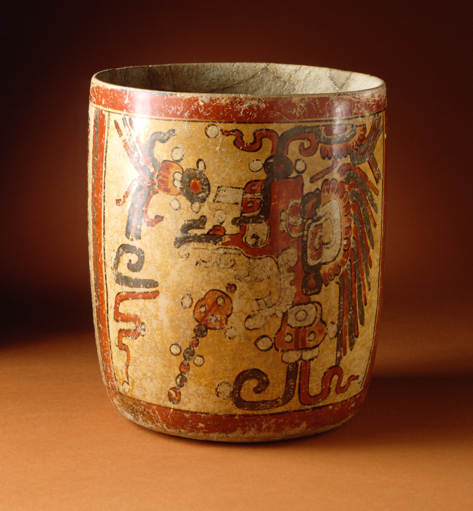 Guatemala, Western Petén, Piedras Negras region, Maya, 600-900 Furnishings; Serviceware Slip-painted ceramic Height: 7 in. (17.78 cm) Gift of the Art Museum Council in honor of the museum's twenty-fifth anniversary (M.90.168.17) Art of the Ancient Americas